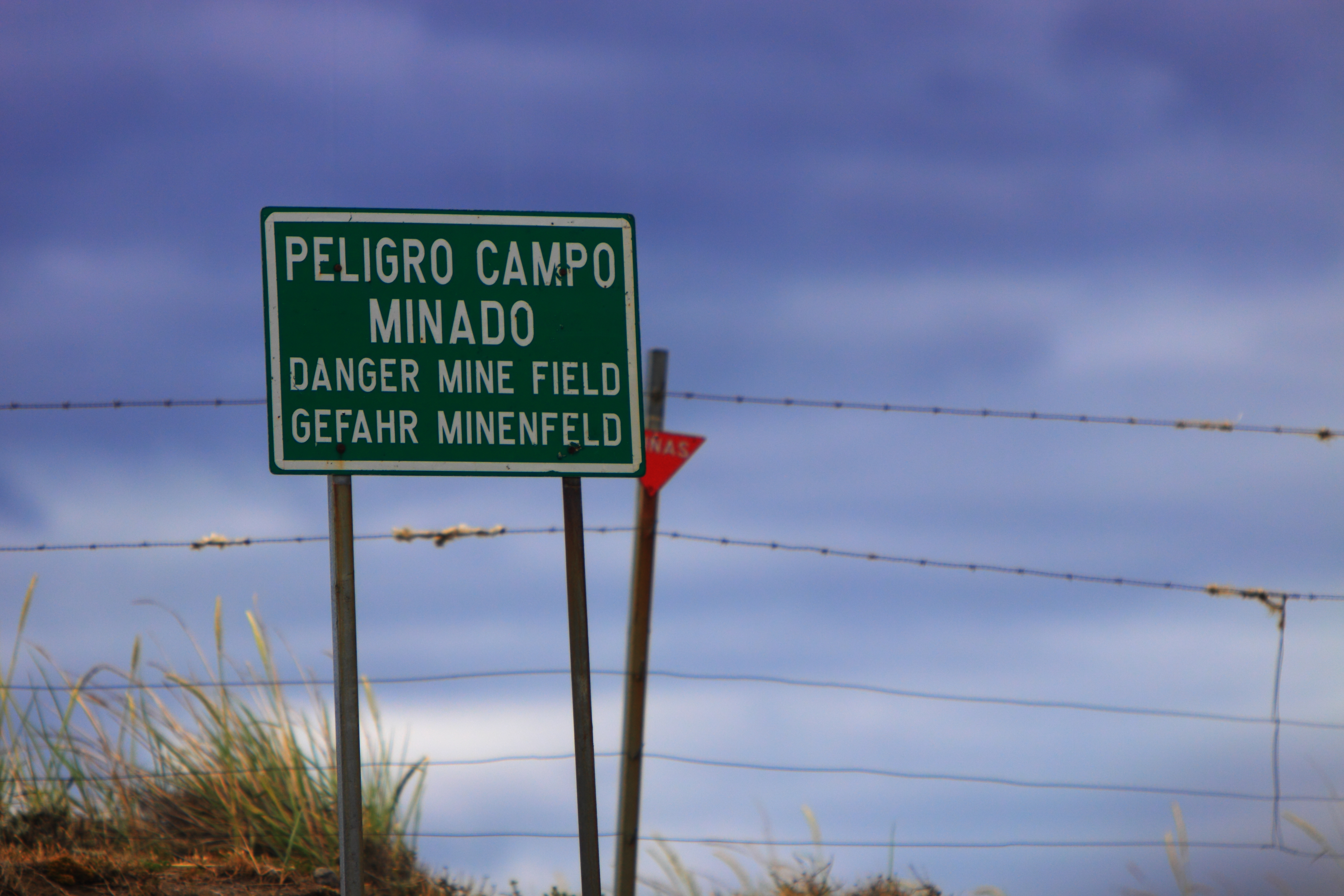 Please, have this description accessible to all by translating it in different languages.